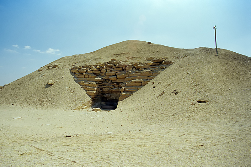 North side of the north pyramid of Amenemhet I, Lisht, Egypt